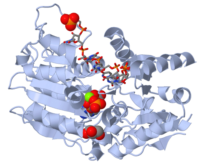 Human dead-box RNA helicase DDX19, in complex with an ATP-analogue and RNA